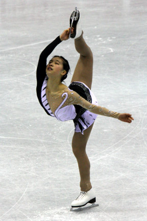 Mira Leung performs an one-hand Biellman spin at 2008 Four Continents Championships.